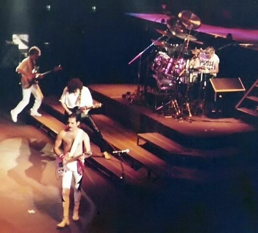 Queen live in Frankfurt, Germany (at the Festhalle, Sept.26 1984)